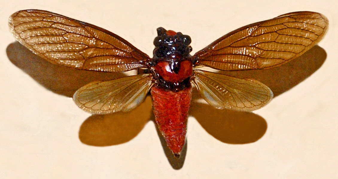 Huechys sanguinea from Myanmar. Museum specimen